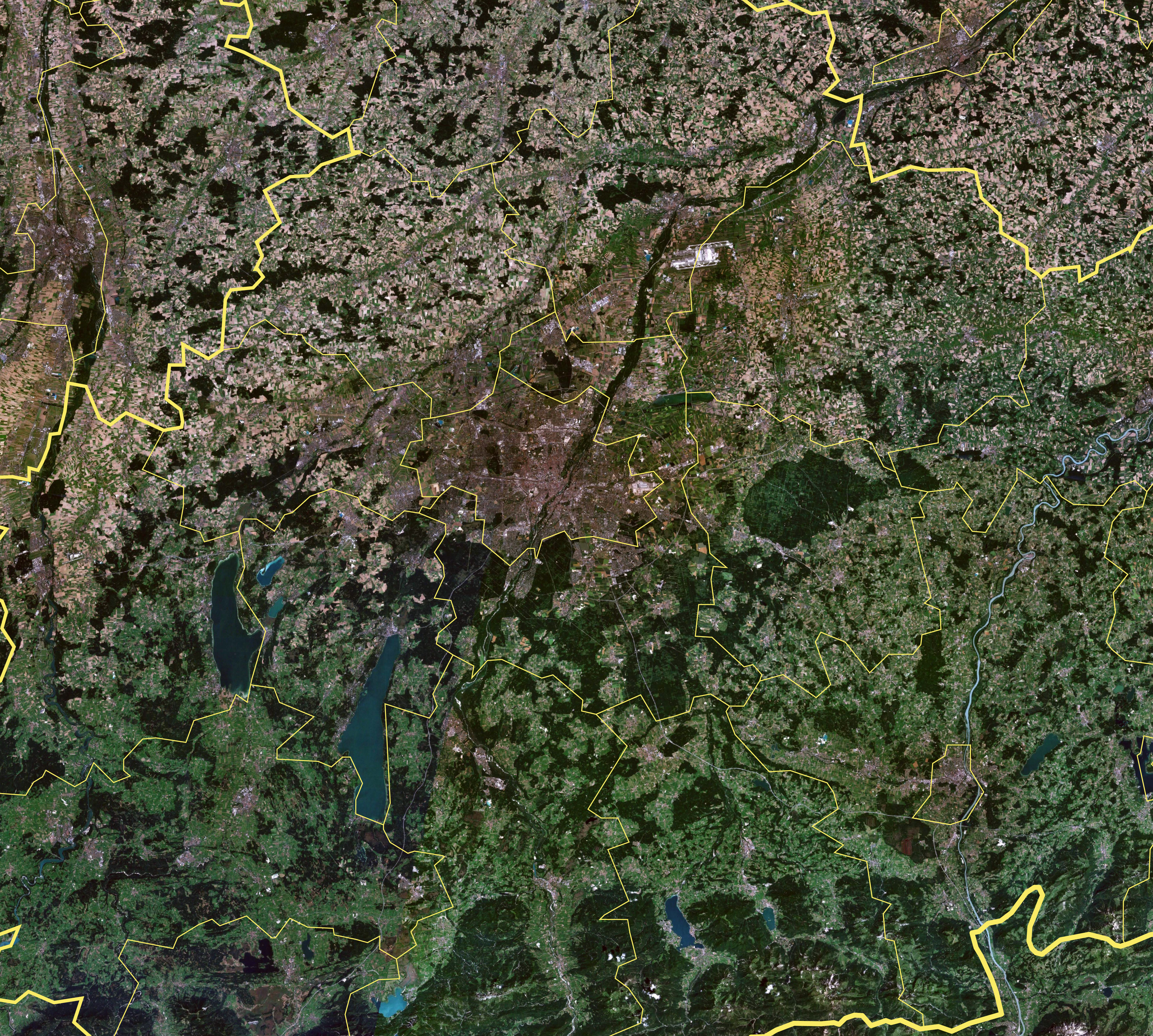 Ditrict boundaries in the Munich region. The district boundaries are subject to heavy geralization.